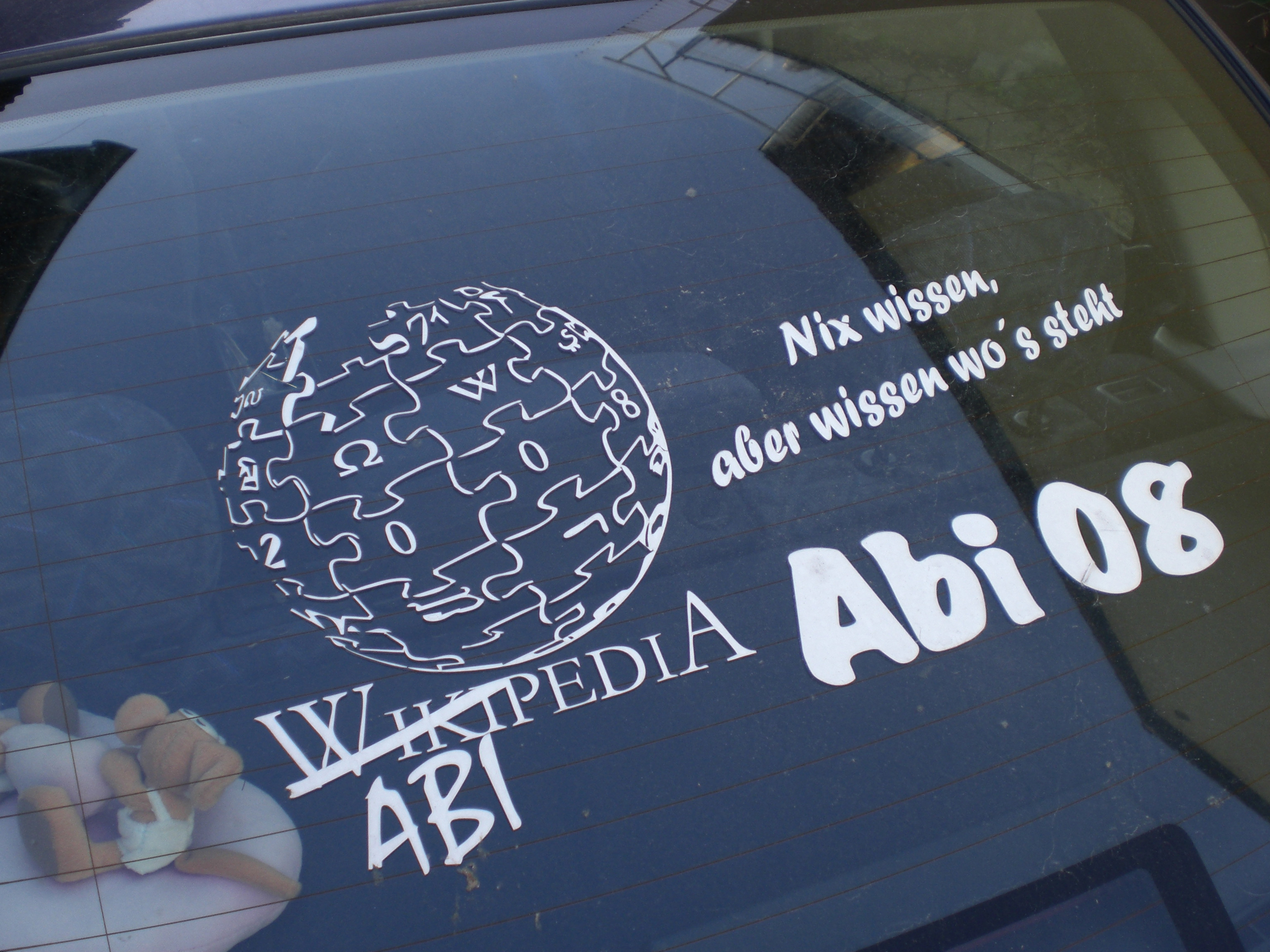 know where it is written